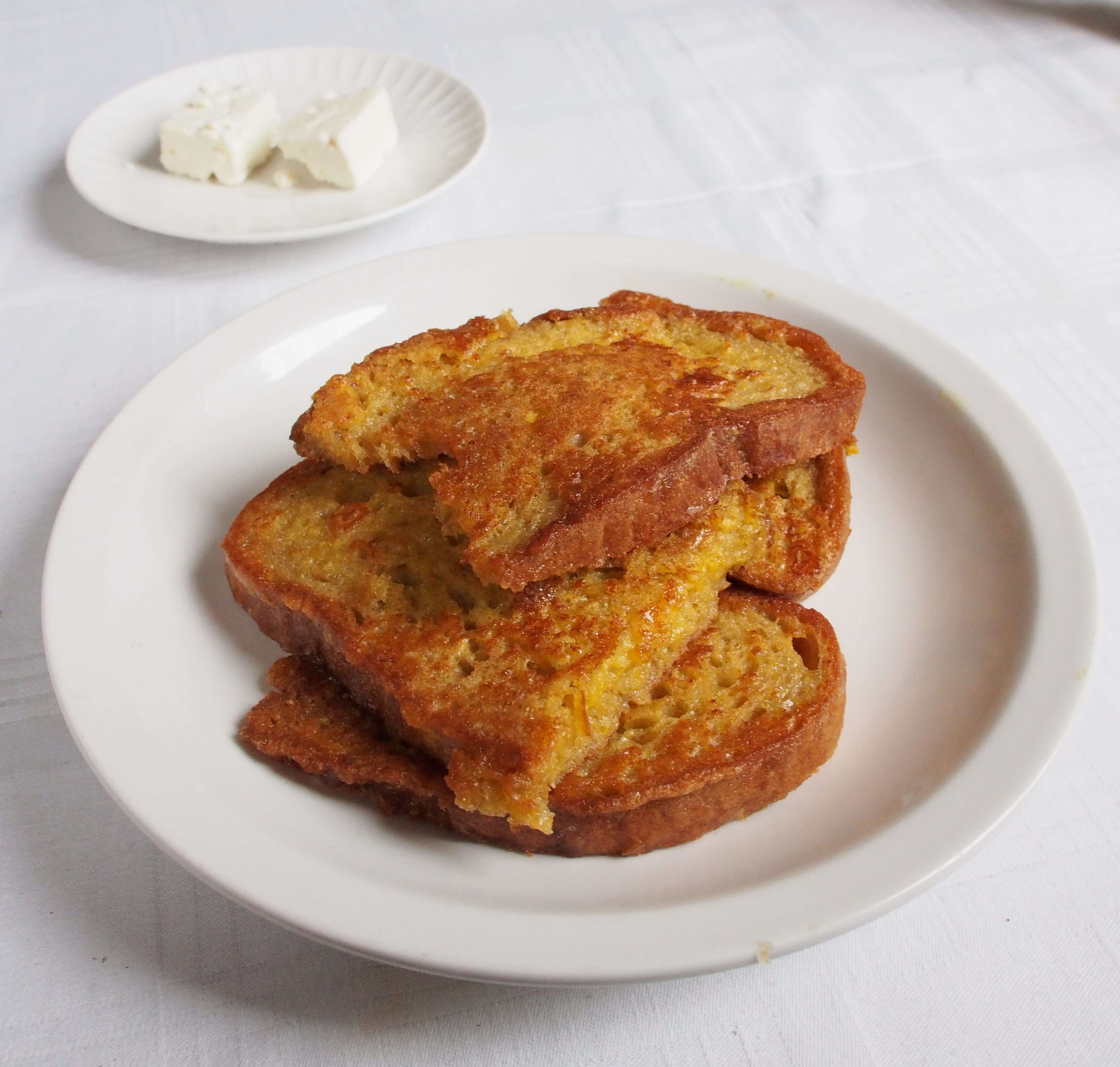 Breakfast of Macedonian cuisine.